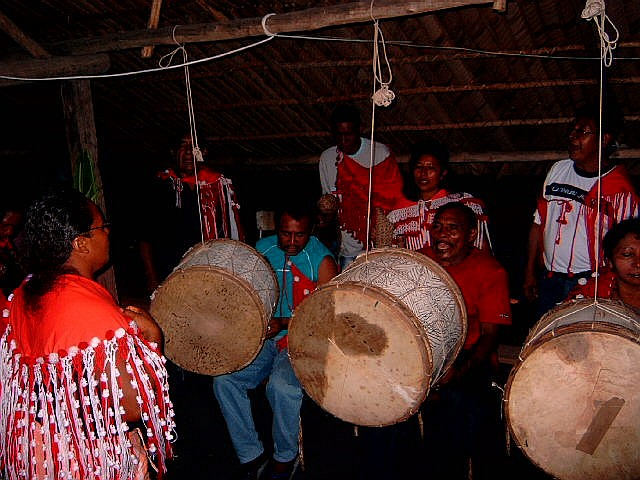 A group of Carib Amerindians from Suriname (the village of Bigi Poika), playing the huge drums, called 'sambura. April 2006.